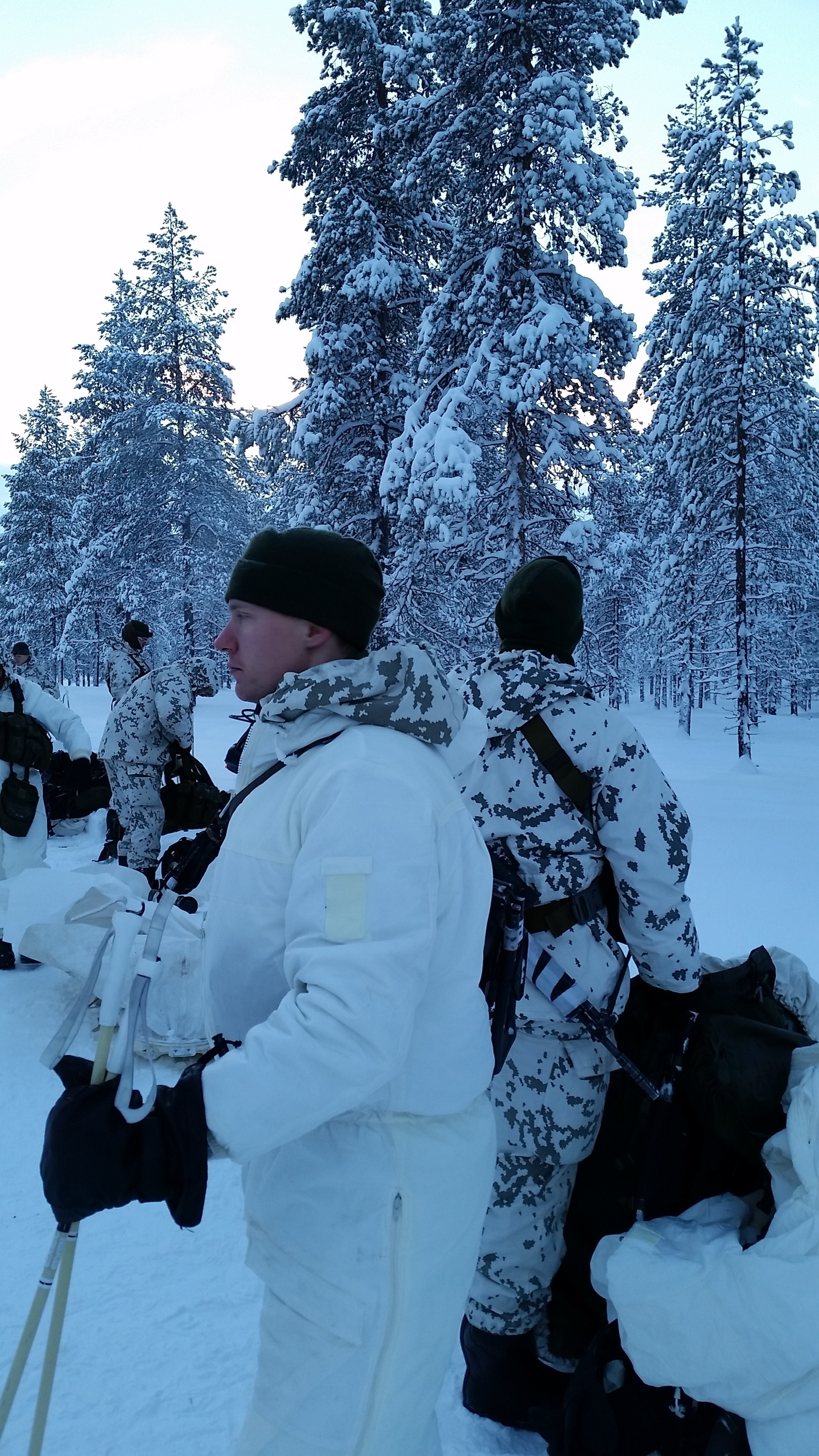 A paratrooper with the 4th Infantry Brigade Combat Team (Airborne), 25th Infantry Division, pulls the Akkio with skis across an austere environment as part of the Finland Cold Weather Basic Operation Course Jan. 6-16, 2015, to build on relations with the Finland Forces and improve knowledge of operations conducted in a cold-weather environment. The 10-day course is similarly structured to the U.S. Army’s Cold Weather Leaders Course, with the exception that the entire course is on skis instead of snow shoes. Some of the basic tasks taught are moving and shooting with skies, building a fire using a survival kit, ski course to learn how to brake going downhill and a ski obstacle course, land navigation with ruck sack and skis, crossing a river with skis and breaking-through-ice drill with skis while wearing a ruck sack. (U.S. Army courtesy photo/Released)